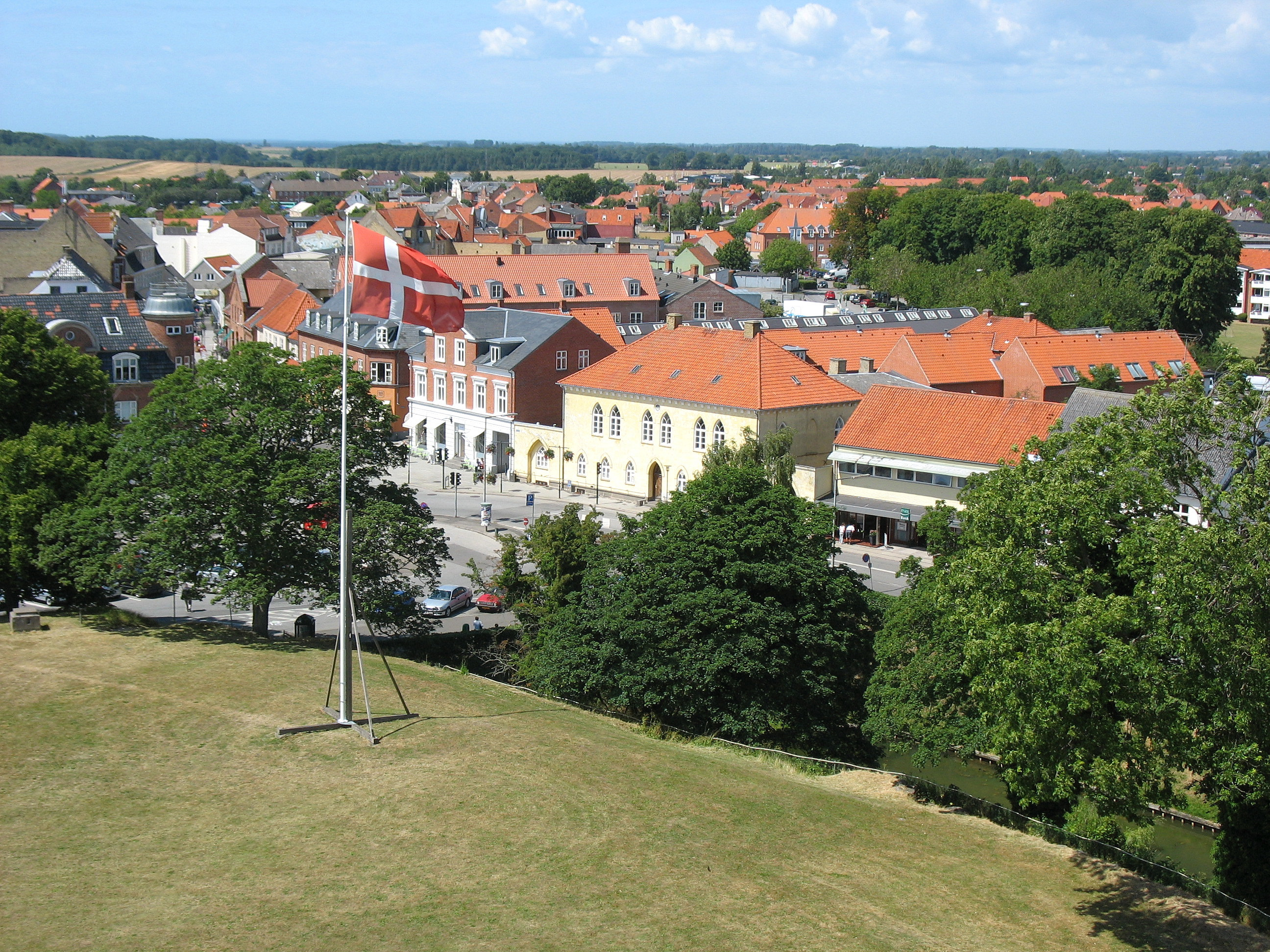 A view over the town "Vordingborg" located in South Zealand, east Denmark.